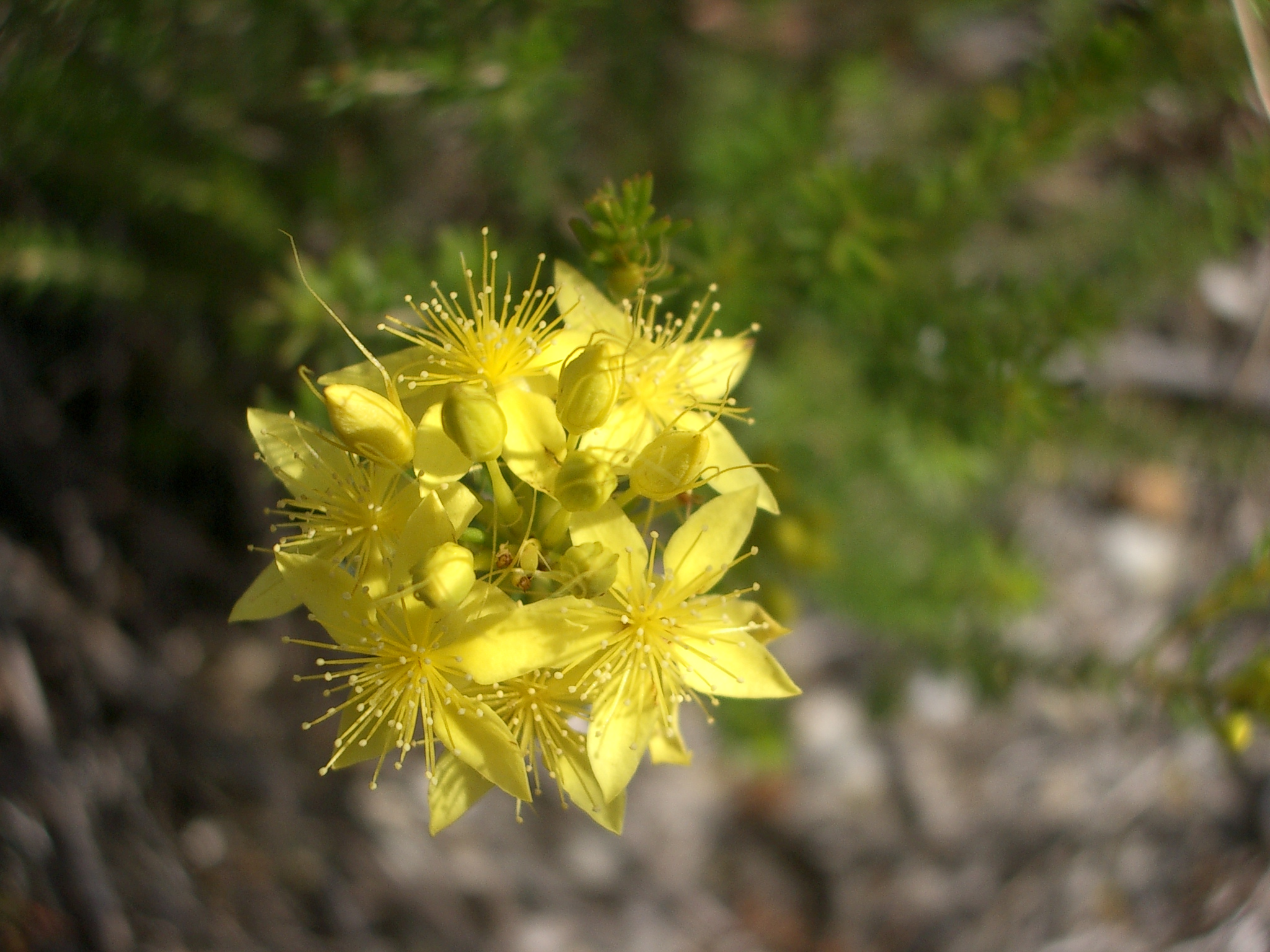 Calytrix angulata (Yellow Starflower) - Flowers.